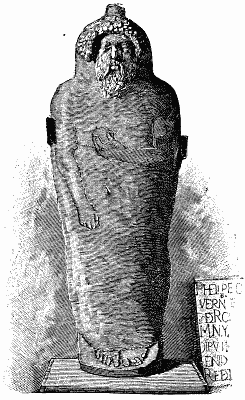 Anthropoid sarcophagus discovered at Cadiz From: Scientific American Supplement, No. 832, December 12, 1891 File copyright info reads: "Not copyrighted in the United States. If you live elsewhere check the laws of your country before downloading this ebook."